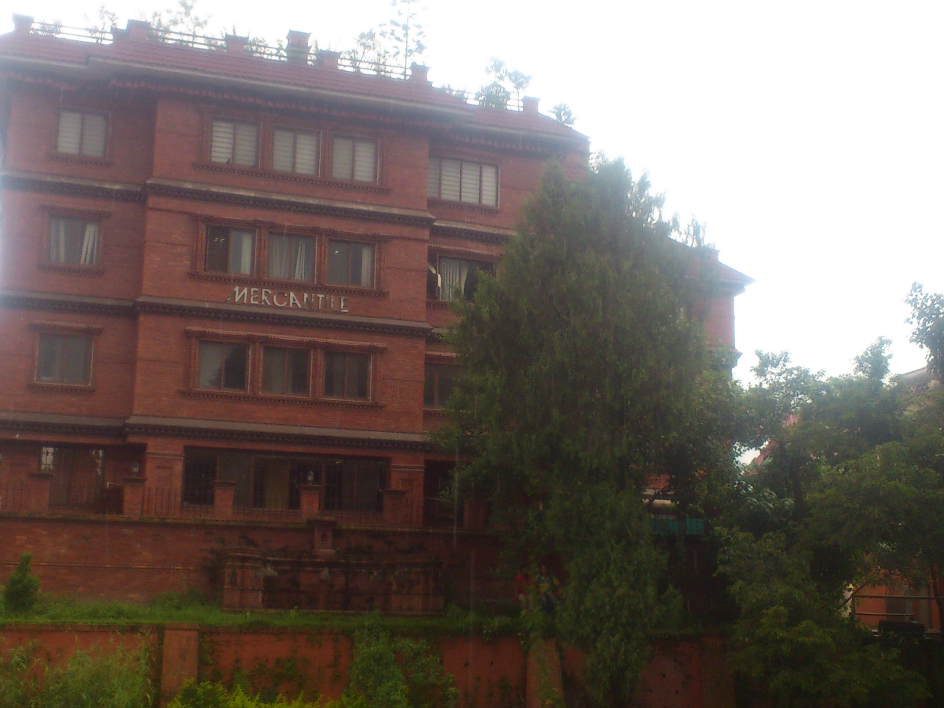 Mercantile Office from Hiti Pokhari